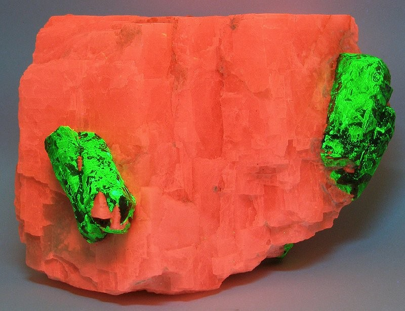 Willemite, Calcite Locality: Franklin, Franklin Mining District, Sussex County, New Jersey, USA (Locality at ) Size: 12.7 x 10.5 x 6.0 cm. This specimen features two doublet clusters of doubly-terminated willemites, each about 4 cm, flanking a large section of massive calcite matrix. Actually, you can see there are other willemites embedded within. The contrast, when shot with ultraviolet light, is stark and dramatic. This is an old specimen, from the stock of Arthur Montgomery (1909-1999), well known field collector and dealer. His label dates it to (1937-1941). Until recently in the George Elling Collection.